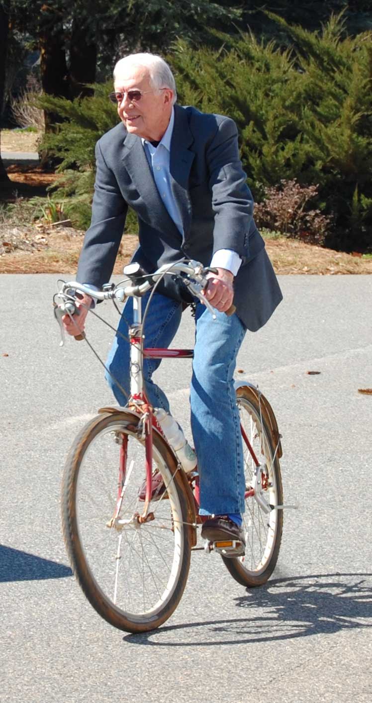 Jimmy Carter on bicycle. Plains, Georgia, USA, on President's Day 2008